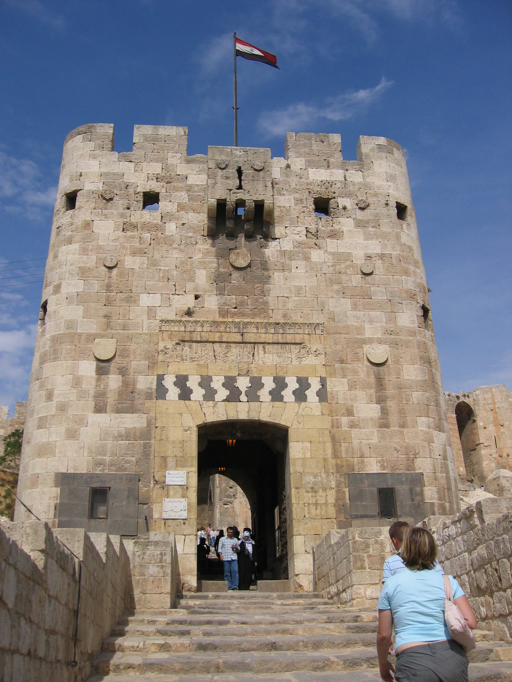 Description: Outer Gate of the Aleppo Citadel Aleppo Syria